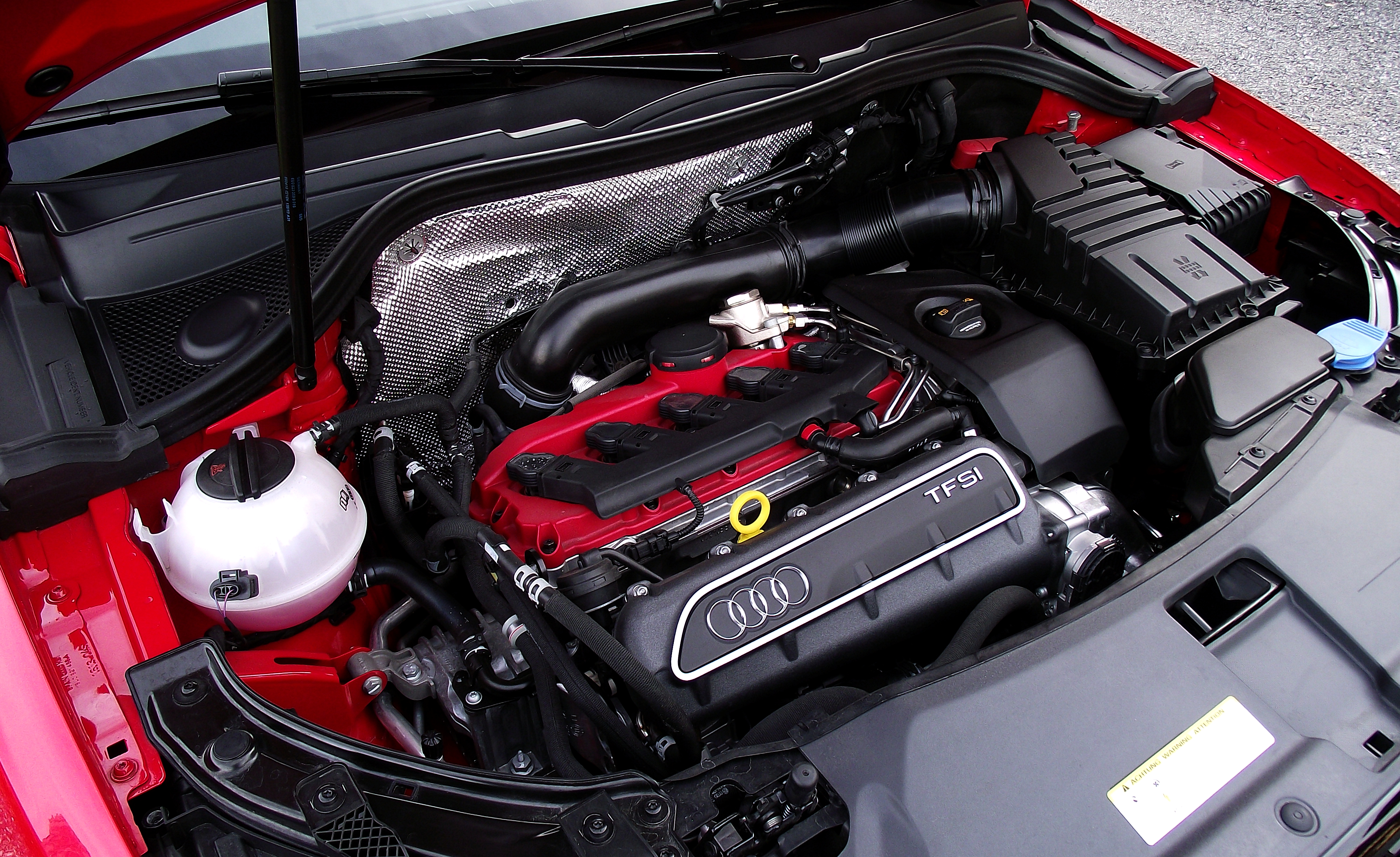 Audi RS Q3 Engine Compartment